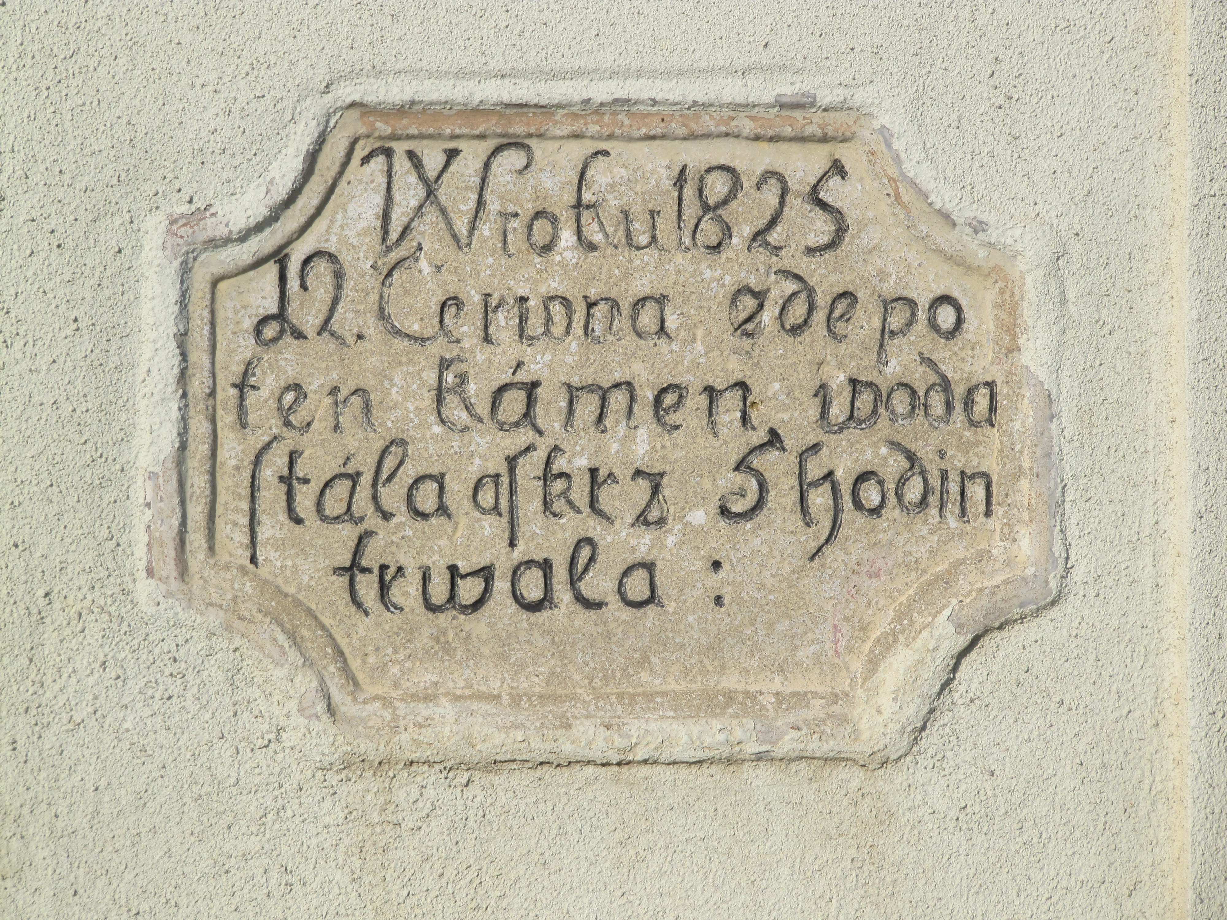 Zlechov in Uherské Hradiště District, Czech Republic. Flood mark from 1825.